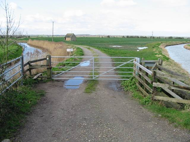 The river Wantsum and Sarre Penn